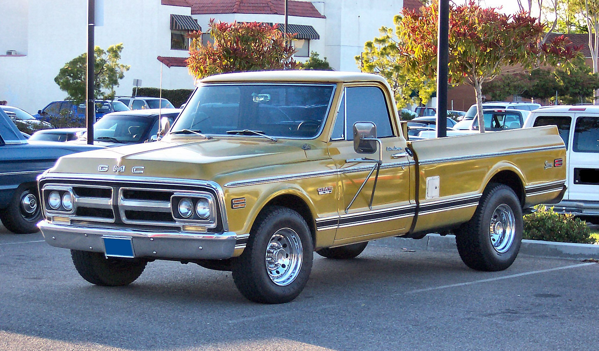 1972 GMC C-Series with the Sierra trim level and the Custom Camper package.